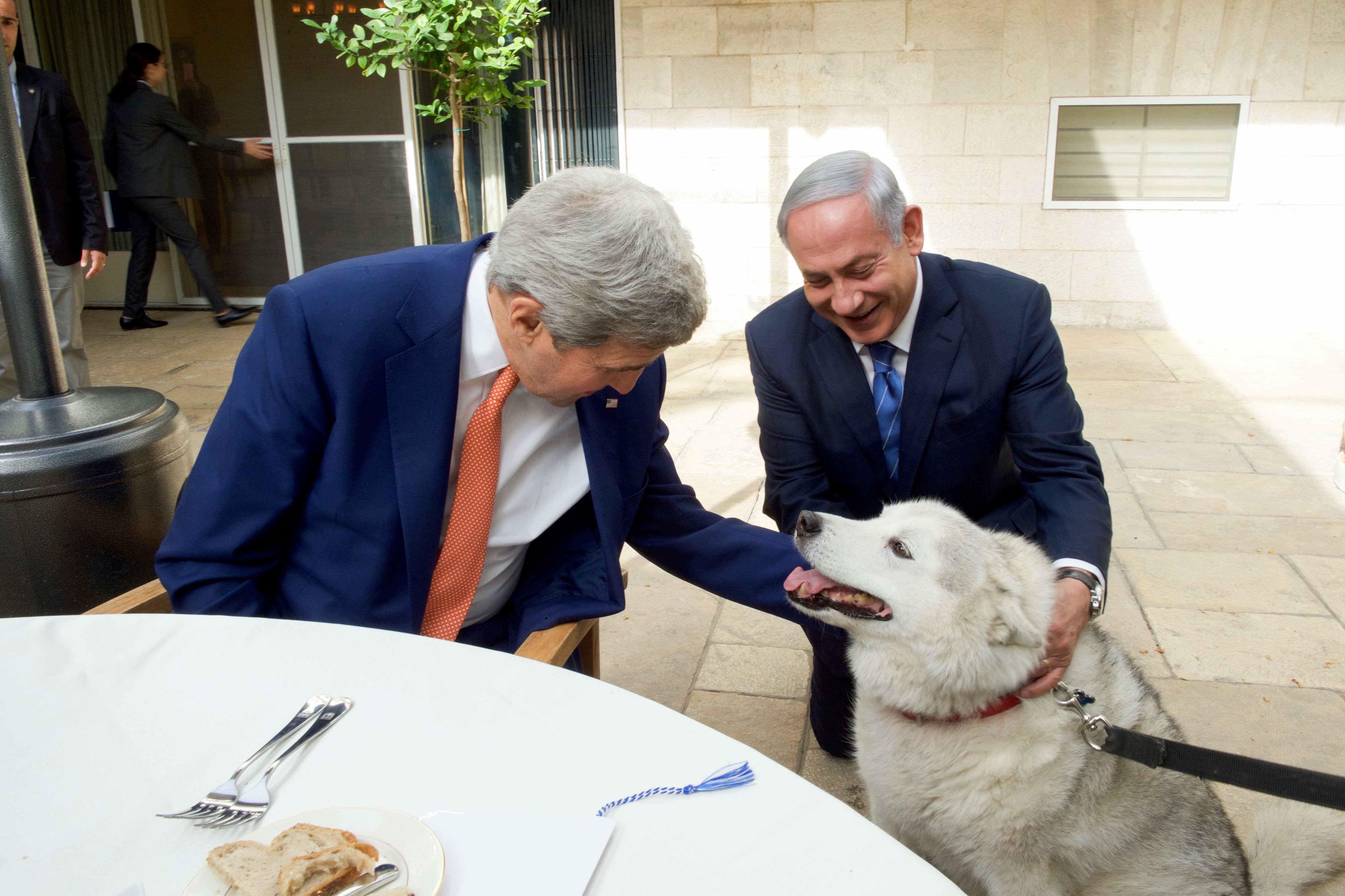 Israeli Prime Minister Benjamin Netanyahu shows his adopted Husky, "Kia," to U.S. Secretary of State John Kerry before a working lunch on November 24, 2015, on the patio at the Prime Minister’s Residence in Jerusalem. [State Department Photo/Public Domain]